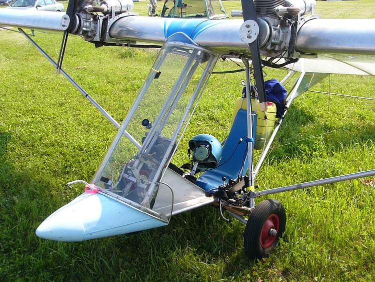 I took this photo of a Lazair Series III.